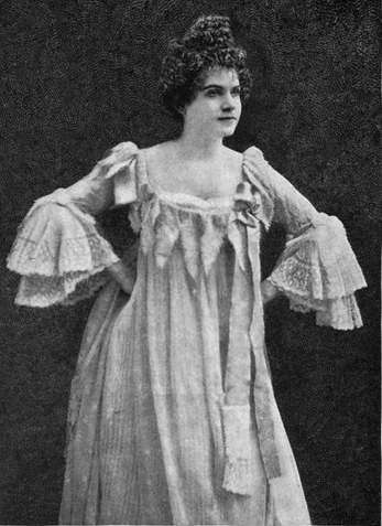 Odette Tyler, from an 1896 publication.